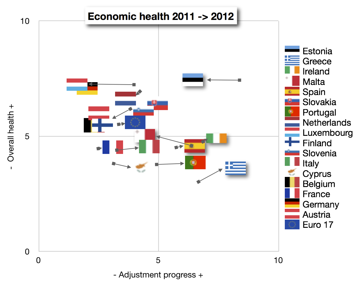 Overall economic health and adjustment progress of Eurozone countries 2011-2012 according to "Euro Plus Monitor 2012" ( ; table 27-28). Indicators are measured from 0 (bad) to 10 (excellent) performance.